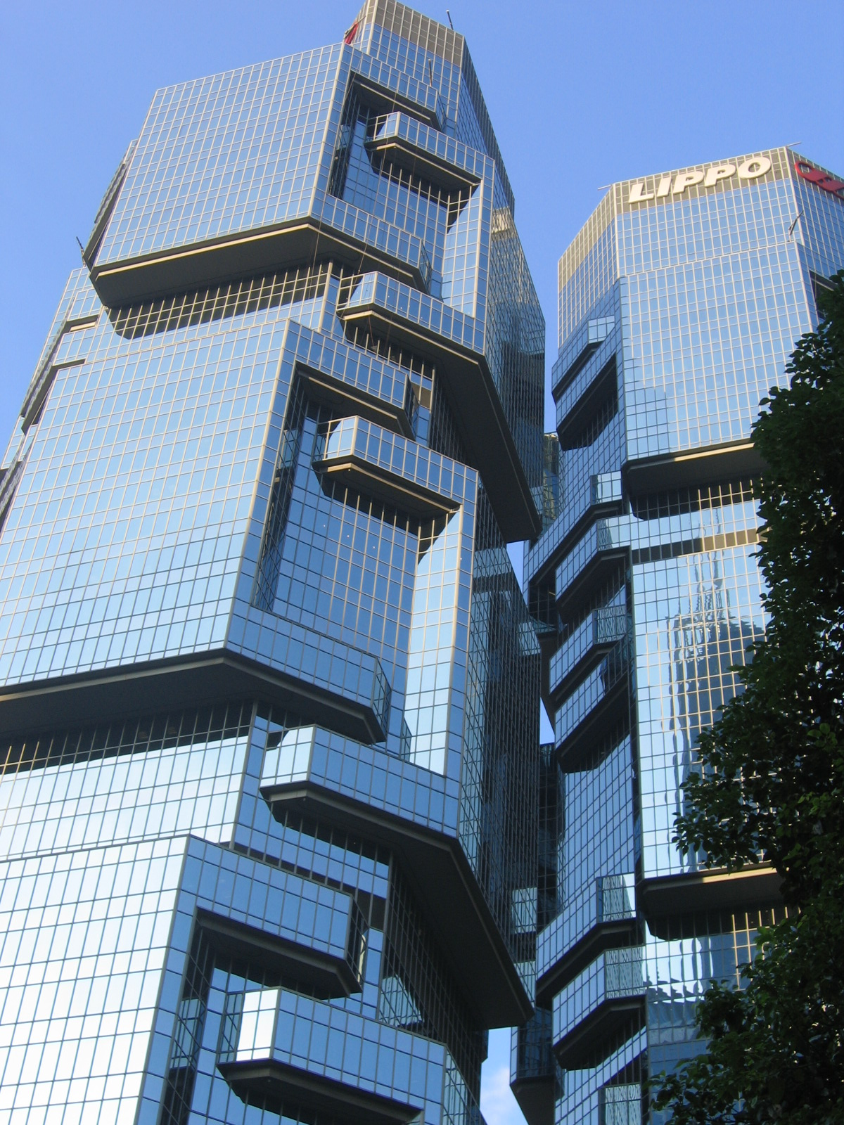 Category:Images of Hong Kong Office Buildings